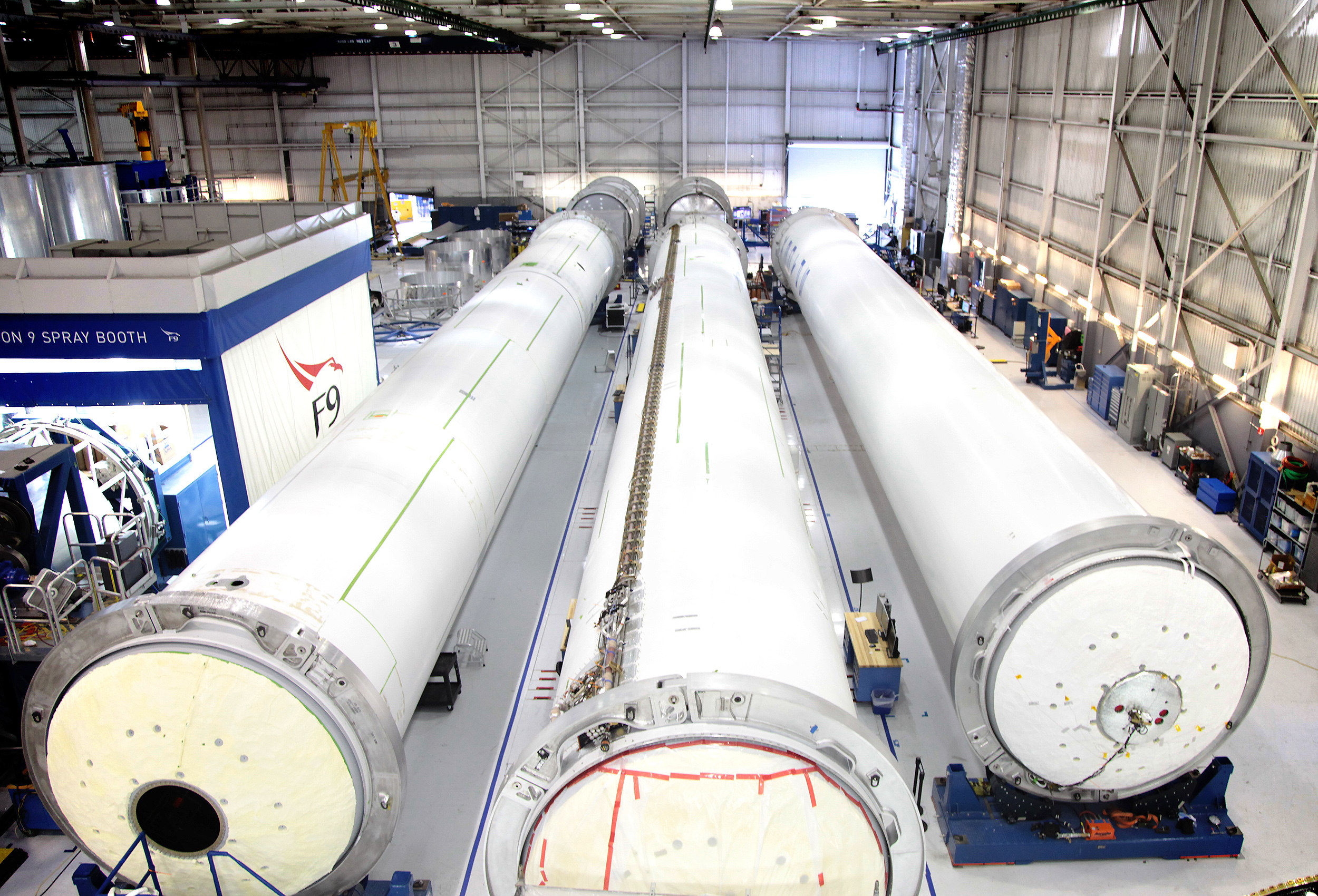 Four Falcon 9 first stages and two second stages under construction in SpaceX headquarters, Hawthorne, CA. Spanning nearly 1 million square feet, the SpaceX factory currently produces more rocket engines than any other U.S. manufacturer, and will eventually produce 40 rocket cores annually.